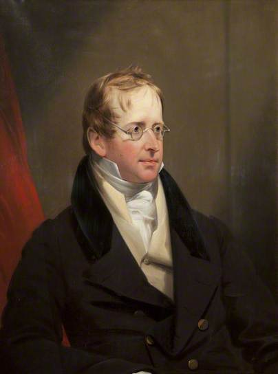 James Thomson - mayor died 1850 at Clitheroe Castle Museum Supplied by The Public Catalogue Foundation